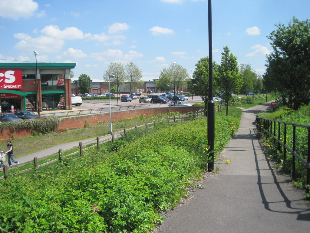 Doncaster York Road railway station (site)Although built to carry passengers, this short branch line apparently never did. Opened in 1916 jointly by the Hull & Barnsley Railway and the Great Central Railway, this ended up as a goods yard until the late 1960s when it closed. View south east from the side of (the new) York Road. The tracks crossed the car park, roughly left to right. The buffers would have been on what is now St Mary's roundabout, just out of view to the right.